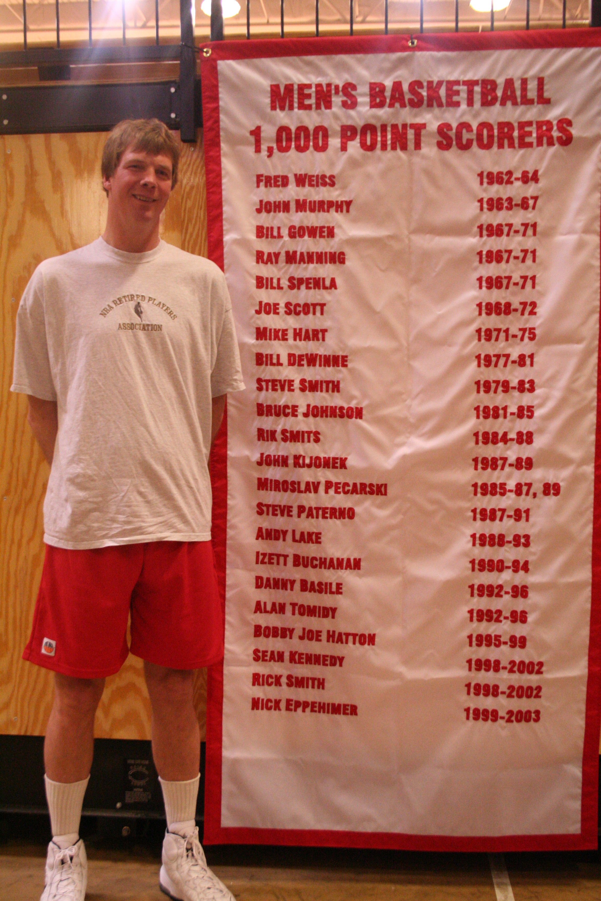 Todd Bivona - Alumni Day @ Marist; Former NBA Star Rik Smits in attendance - Someone else took this picture and credit should be given to the proper authority!